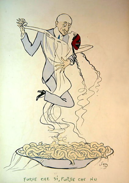 Caricature of d'Annunzio in the album "Tangoville sur mer"